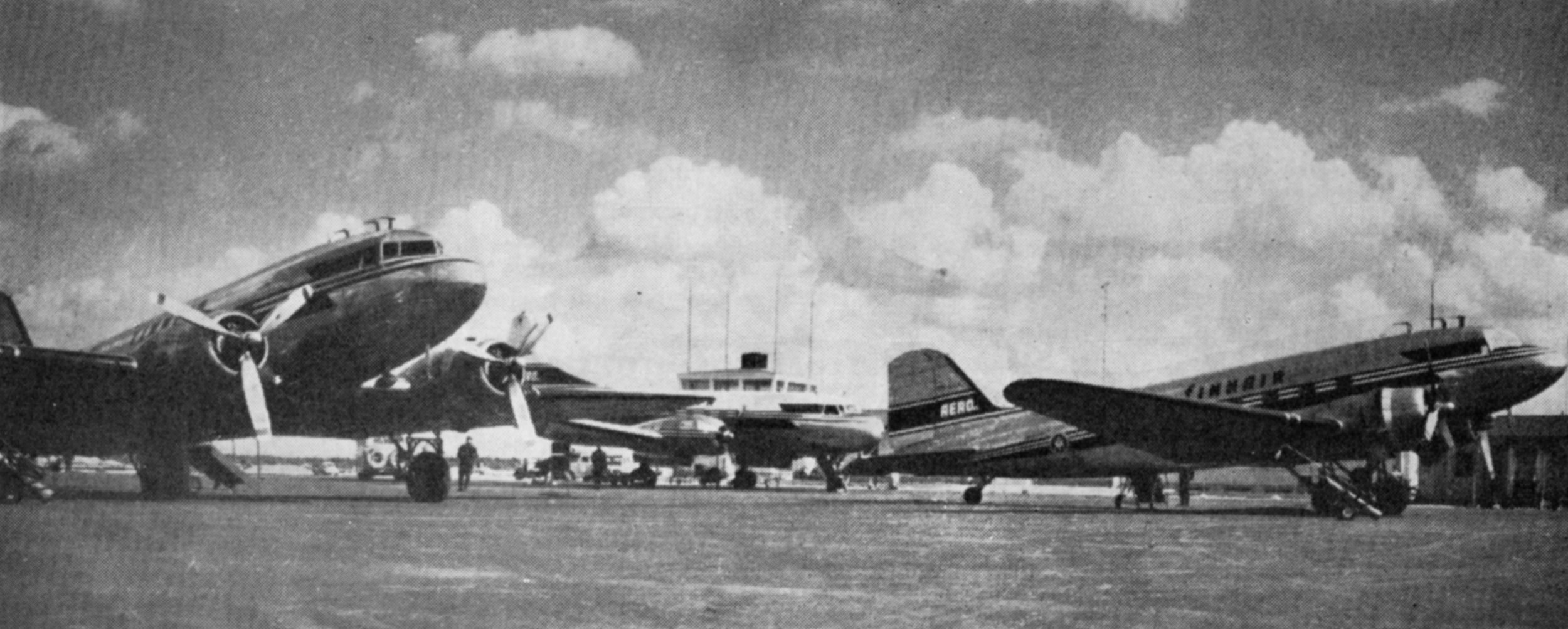 Oulu Airport in the 1950s.